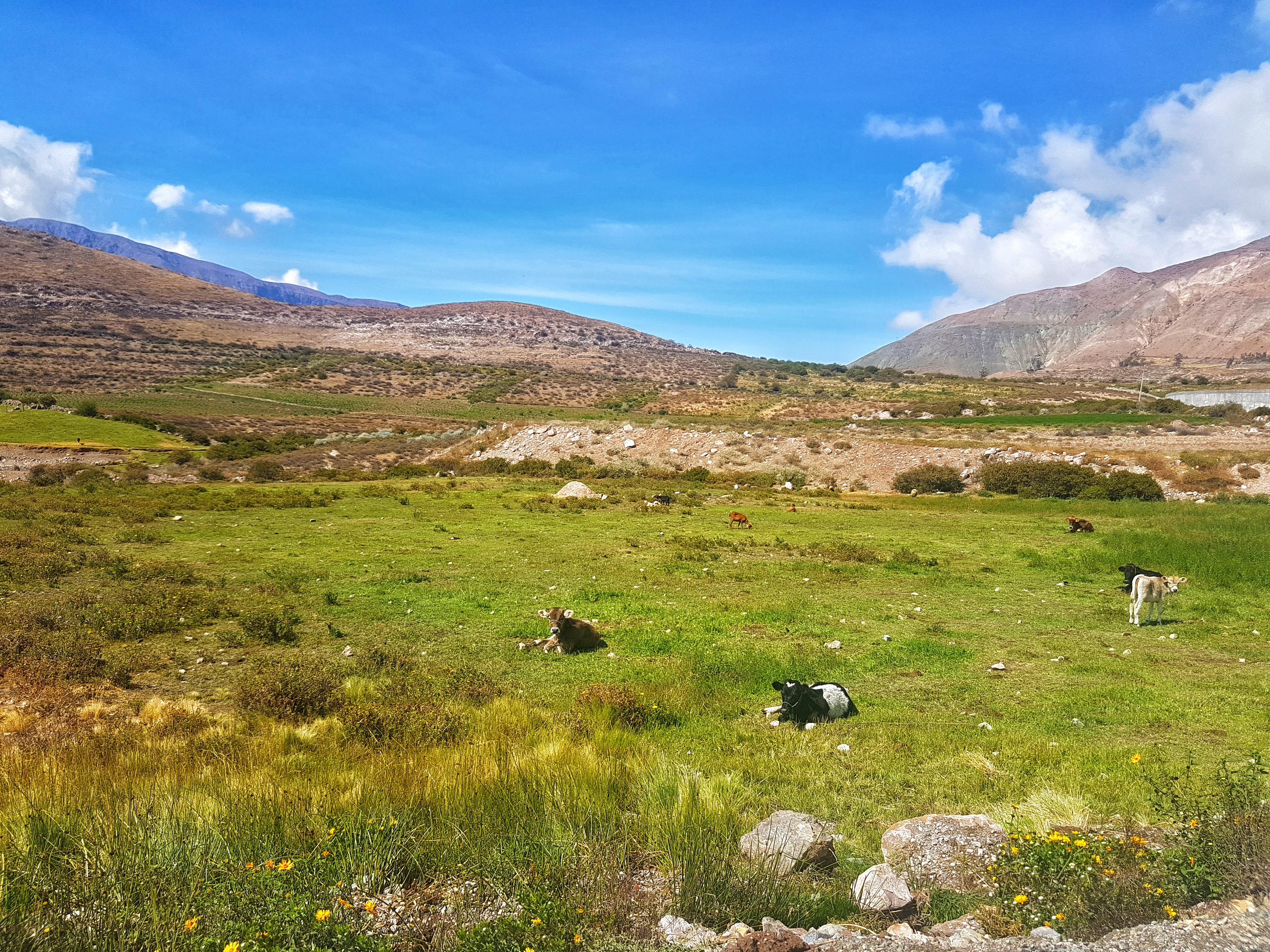 Livestock in the high Andean area of Candarave outsides